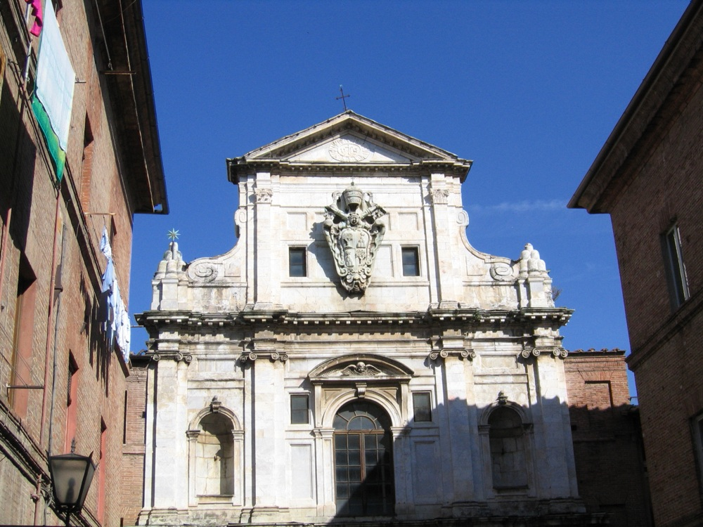 Church of San Raimondo, Siena, Italia